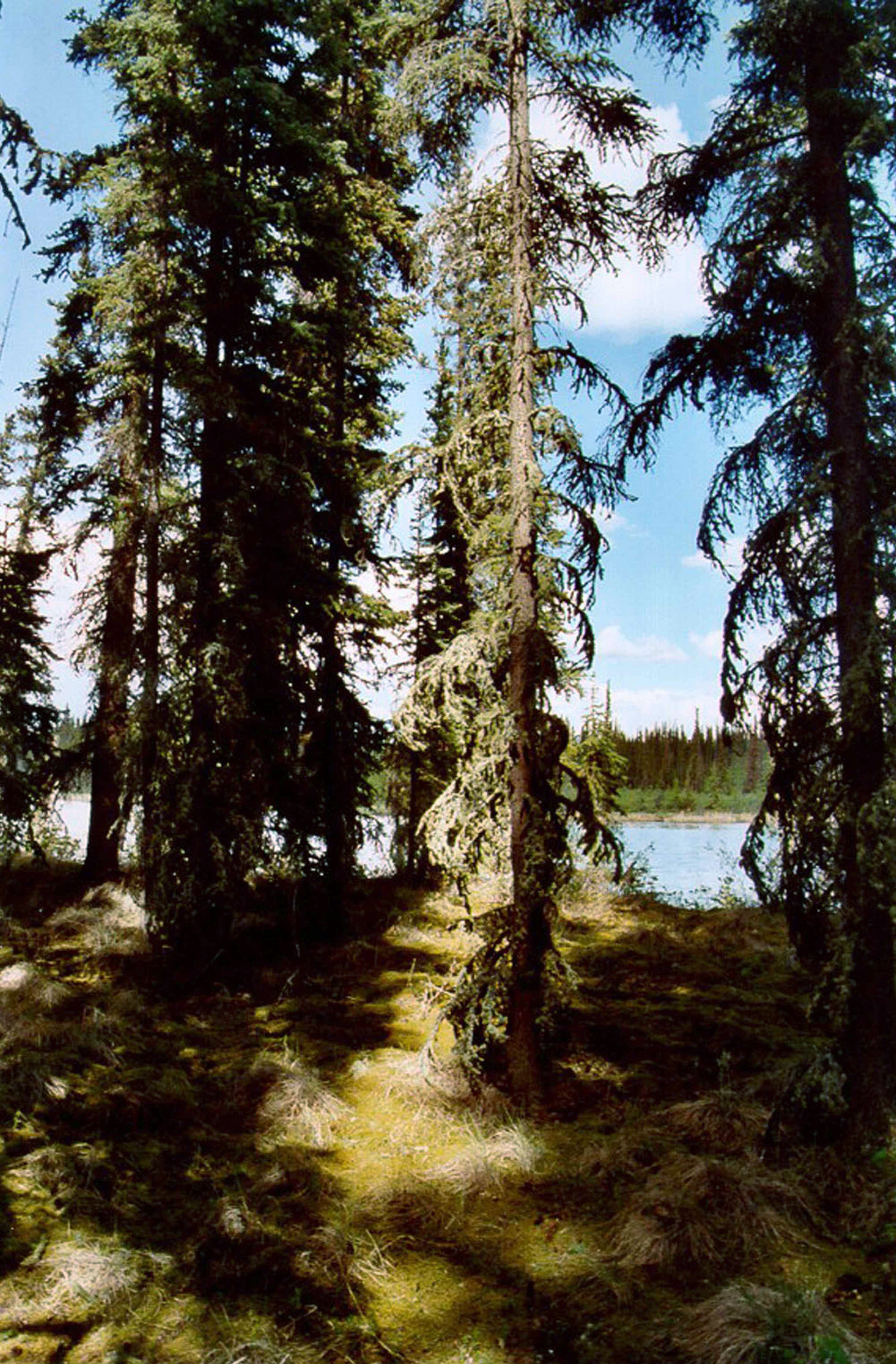 Tall White Spruce Picea glauca shade the mossy forest floor